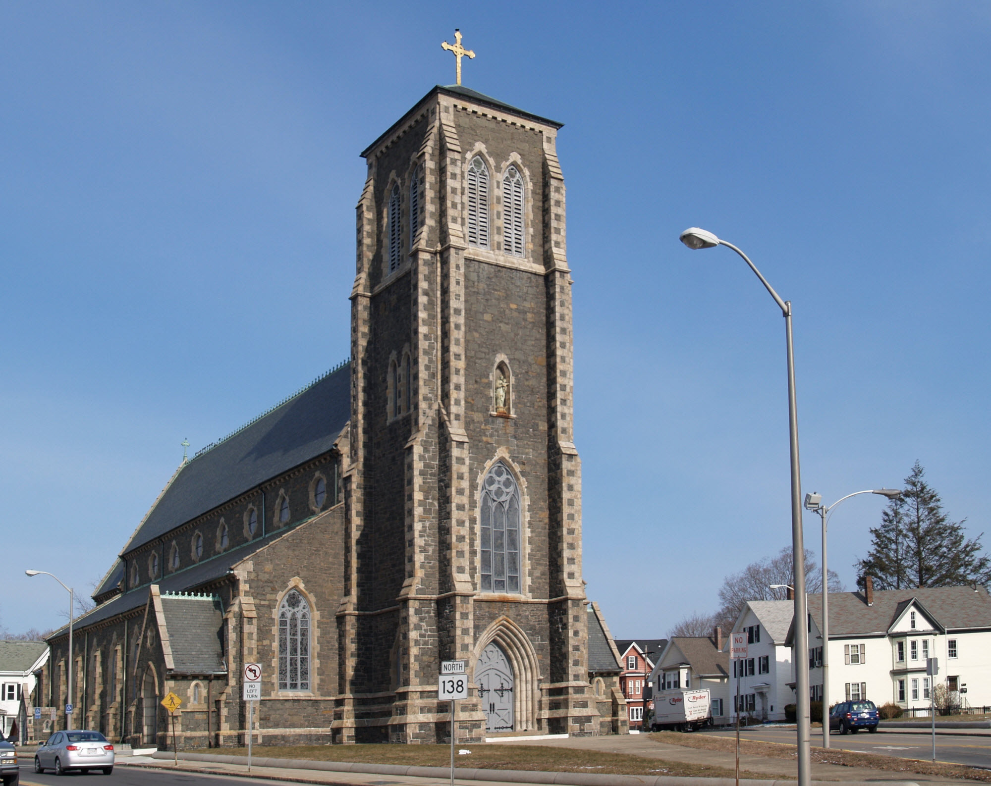 Saint Mary's Church, Taunton, Massachusetts